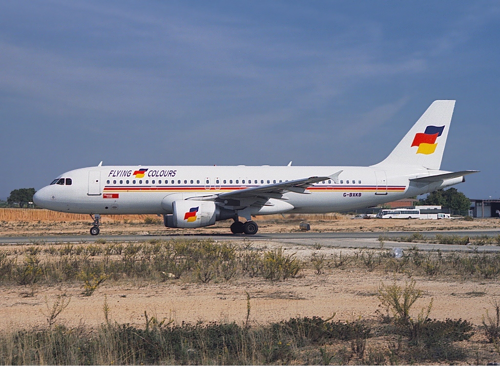 Flying Colours Airlines Airbus A320